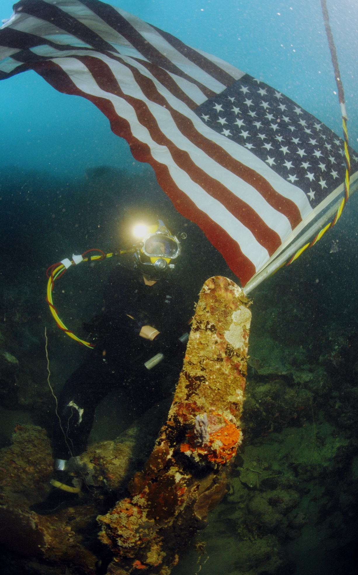 MICRONESIA (Feb. 14, 2008) Petty Officer 1st Class Julius Mcmanus, assigned to Mobile Diving Salvage Unit (MDSU) 1, plants an American flag on the site where an American WWII military aircraft crashed into the Pacific Ocean. Deep sea divers are assigned to Joint POW/MIA Accounting Command (JPAC) accounting of all Americans missing as a result of the nation's past conflicts.